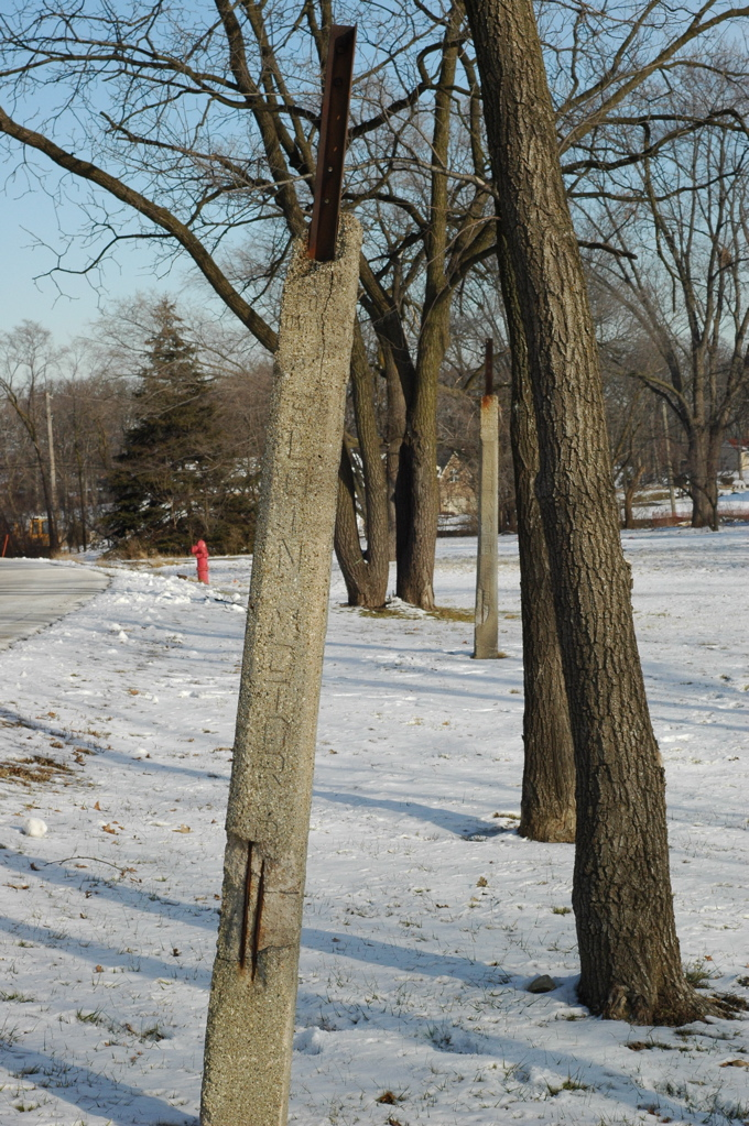 7-9 foot concrete markers on Old Lake Street in Bartlett, Illinois. Per this link, "The road has been blazed with pole markings and signboards, and the work of installing concrete marker posts, nine feet high already has been started. The Grant Highway comes out of Chicago by way of Lake street road and crosses DuPage county, where scarifying, rolling, and surfacing will be done this spring [1916]." The worn out text on the poles refer to the "Elgin Motor Club" (1913-1952) and the "Aurora Motor Club", two organizations that worked to build better roads to downtown Chicago.